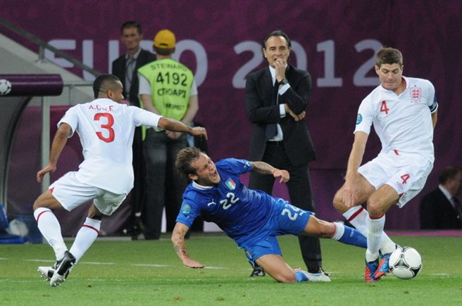 Ashley Cole, Alessandro Diamanti and Steven Gerrard at Euro 2012 match England-Italy